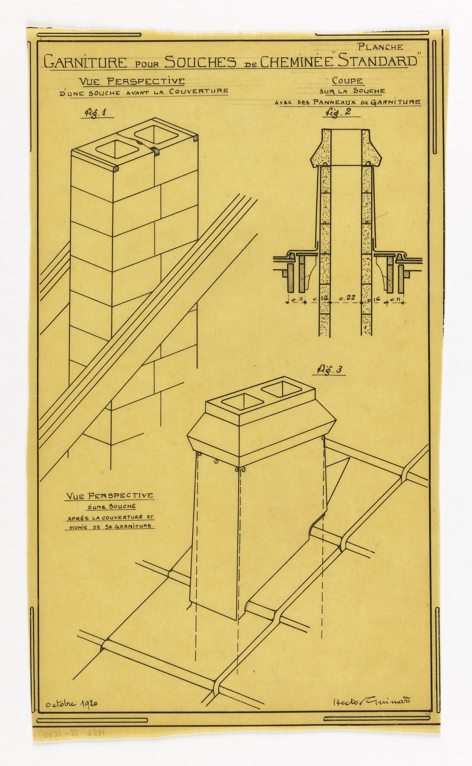 Design for a mass-operational house by Guimard, detailing the roof supports for the chimney.